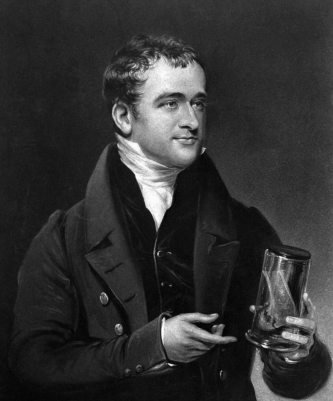 [Herbert Mayo] Painted by J. Lonsdale Esqr. Engraved by David Lucas.